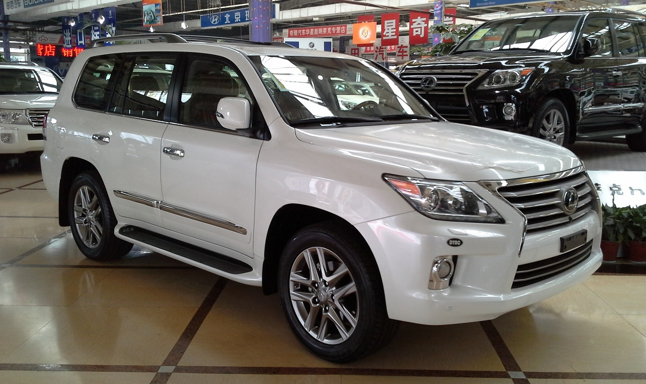 Lexus LX J200 facelift photographed in Chengdu, Sichuan province, China.